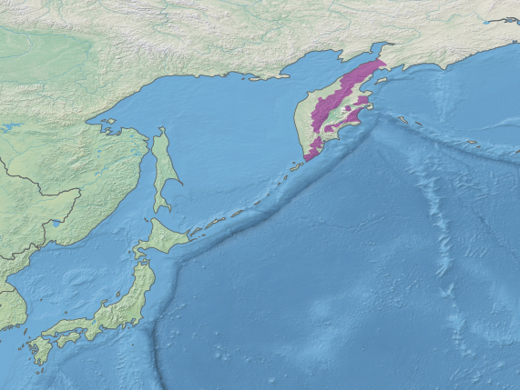 Ecoregion 1105: Kamchatka Mountain tundra and forest tundra